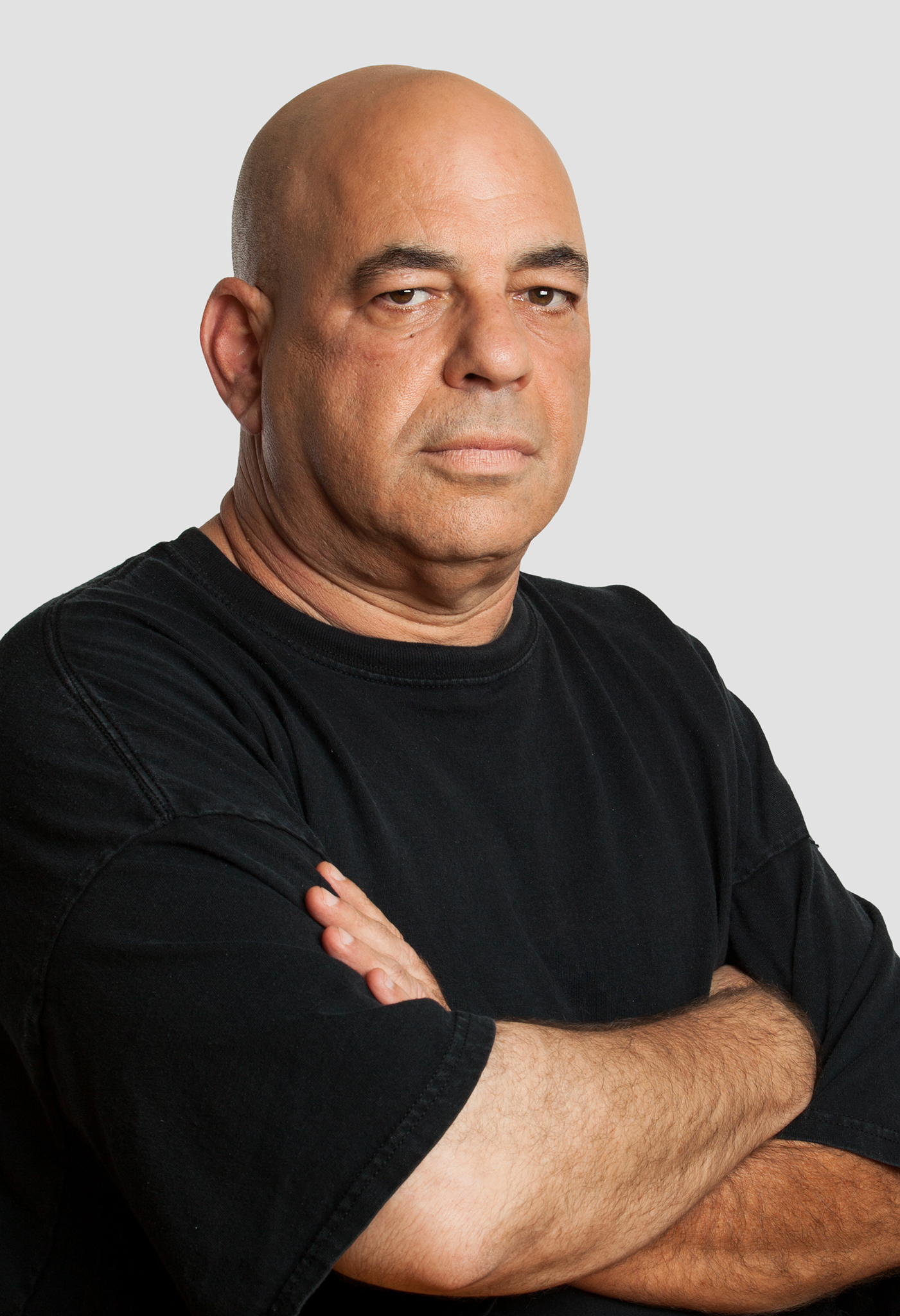 Ron Kofman 2016 Photo by: Nitzan Hafner